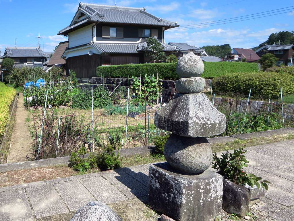 The rings of this stone monument west of the Asuka-dera Temple at Asuka, Japan, represent the five elements of life: soil (bottom), water, fire, wind, and emptiness.